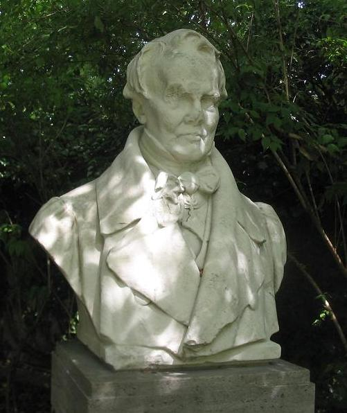 Bust of the scientist Alexander von Humboldt. Side bust in the Monument group № 31 in Berlin's former Siegesallee with the central monument commemorating Frederick William IV of Prussia. Sculptor: Karl Begas, unveiled on 26 October 1900.